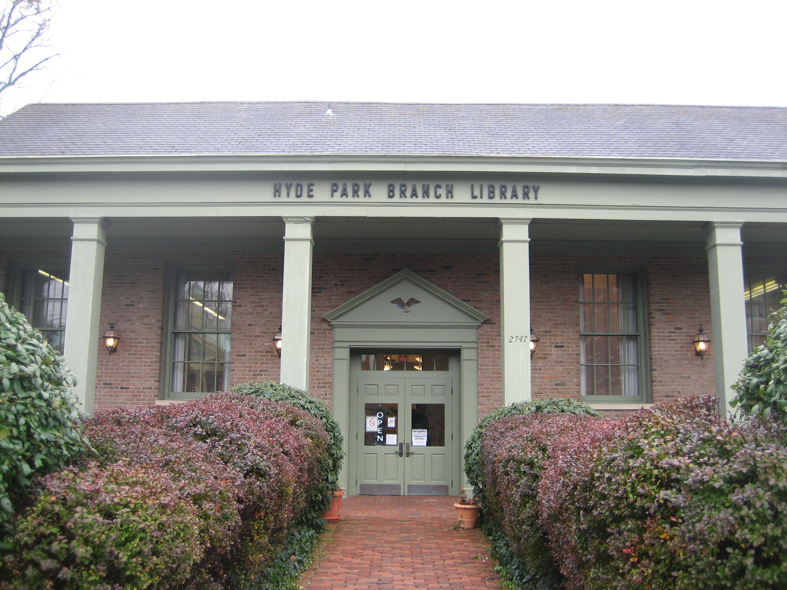 Hyde Park Branch Library, Public Library of Cincinnati and Hamilton County, in Hyde Park neighborhood of Cincinnati, Ohio, United States.